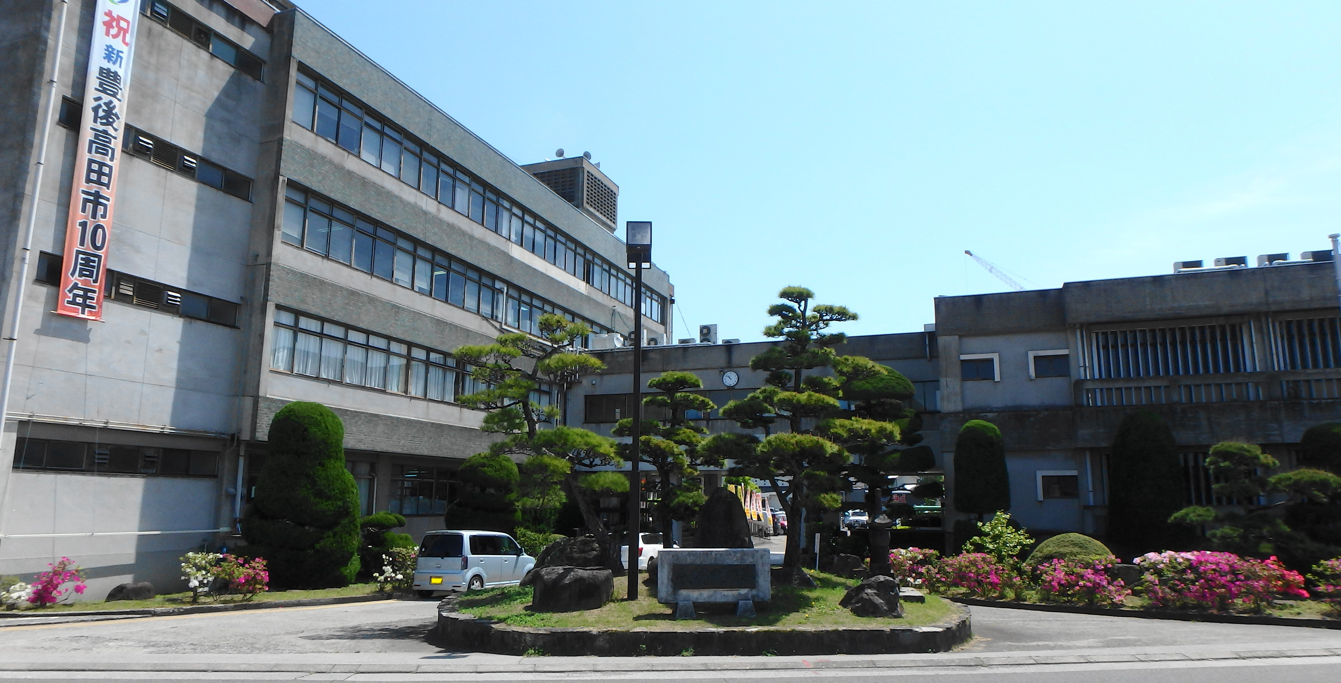 Bungotakada city hall,Oita prefecture,Japan